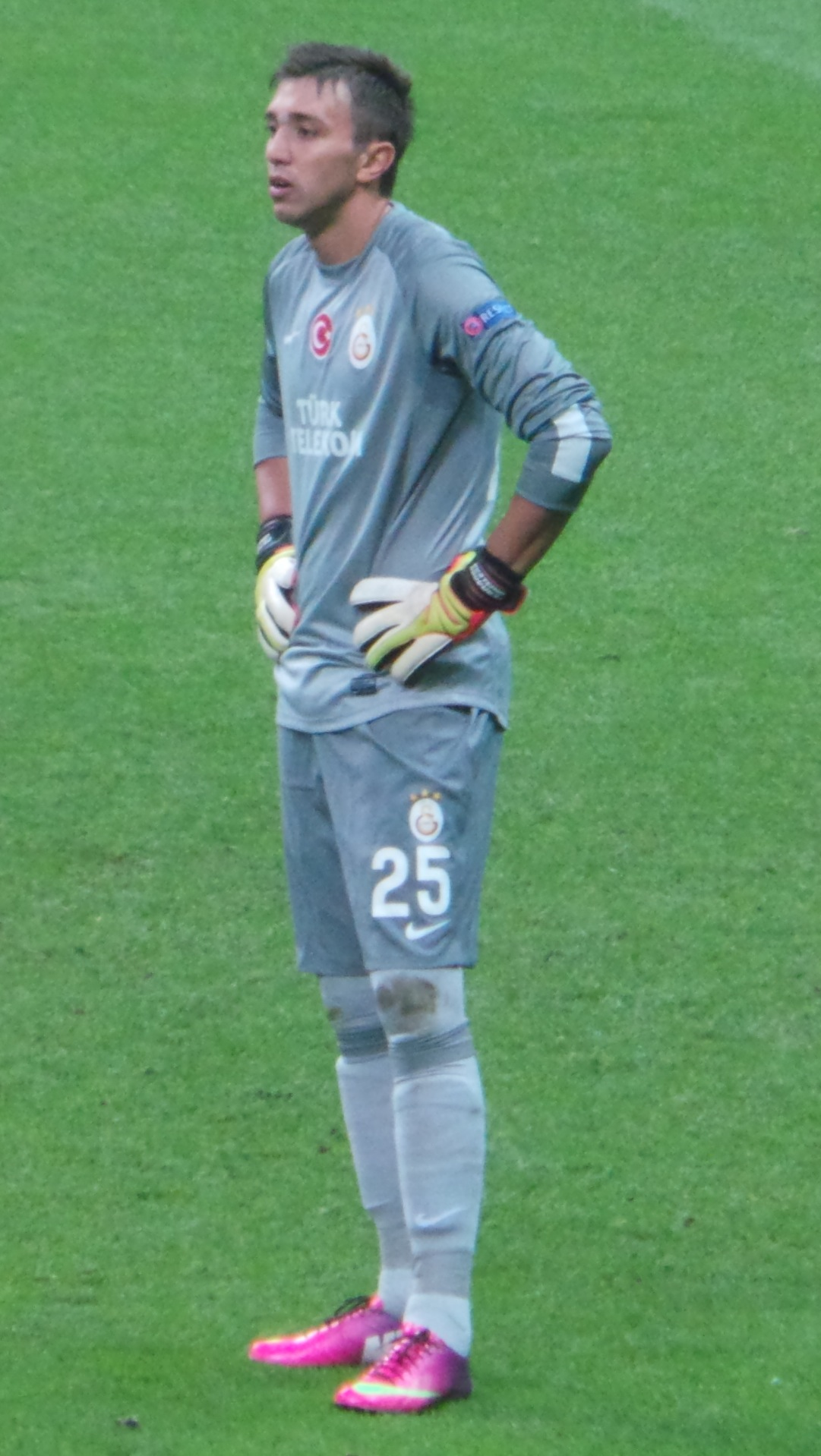 Fernando Muslera in 2013